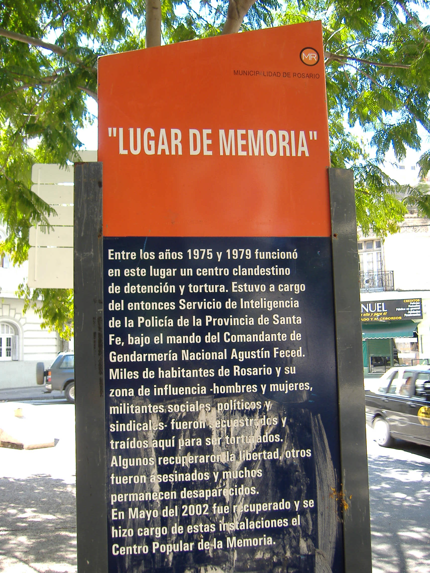 A sign on the site of the Centro Popular de la Memoria (Popular Memory Center) in Rosario, Argentina. It is placed on the former site of the headquarters of the police, which served as an illegal detention center were prisoners were tortured or "disappeared", during the Dirty War and the last dictatorship (from 1975 to 1979). The building was turned into a memorial in 2002. This picture was taken by Pablo D. Flores on 7 March 2006.